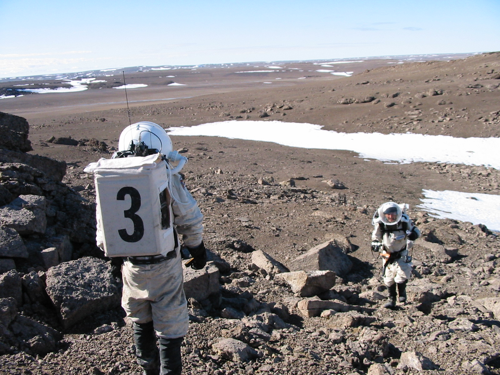 Crew 3 members Charles Frankel and Brent Bos climb Marine Rock on Devon Island on July 20, 2001. This was not far from the Flashline Mars Arctic Research Station.